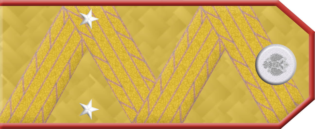 Rank insignia of the Imperial Russian Army 1909-1917, here collar patch "Major general" .